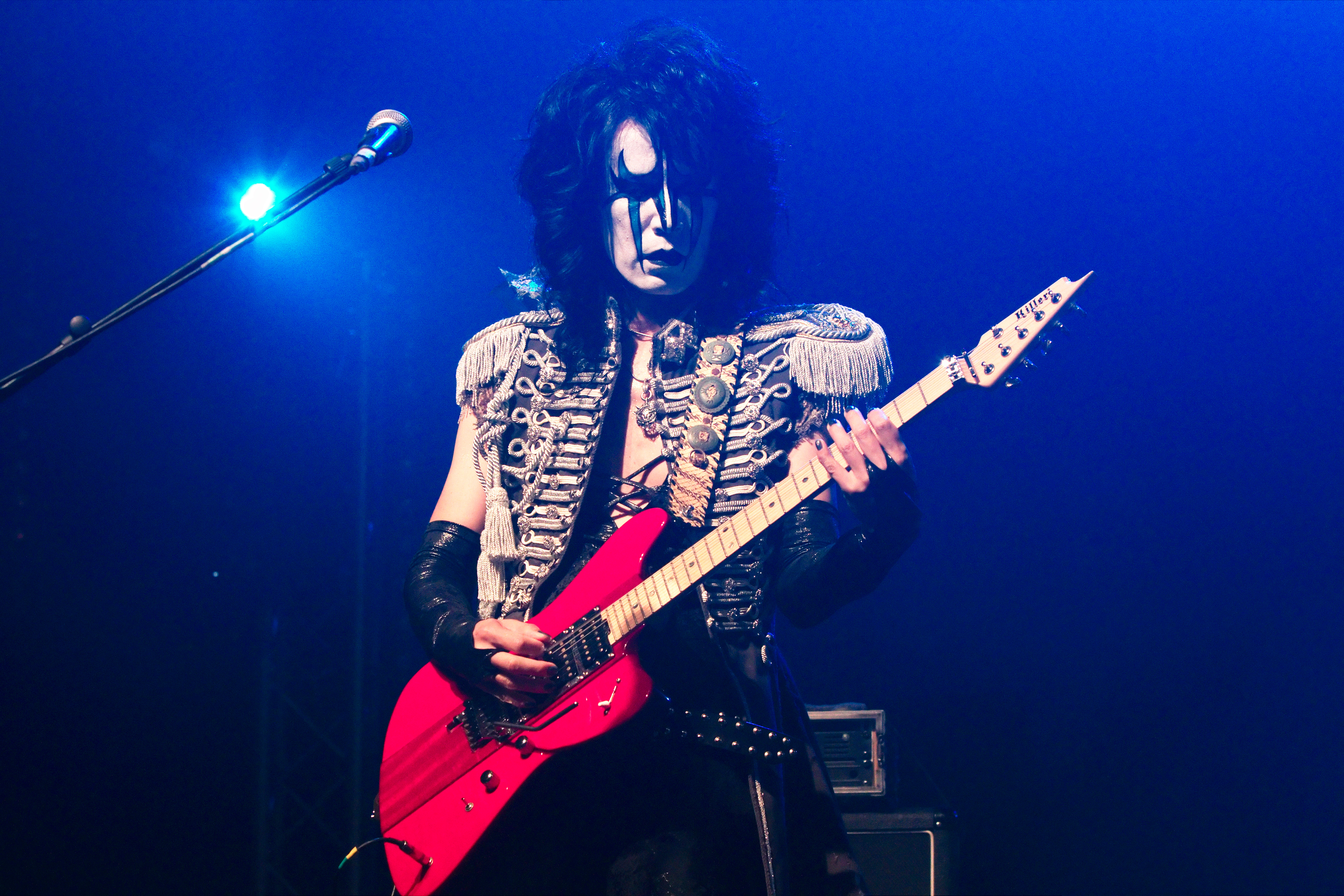 Seikima-II live at Japan Expo 2010 (Paris, France).